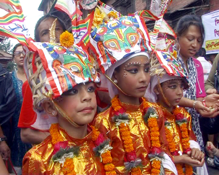 Children preparing for Gaijatra festival in Kathmandu.